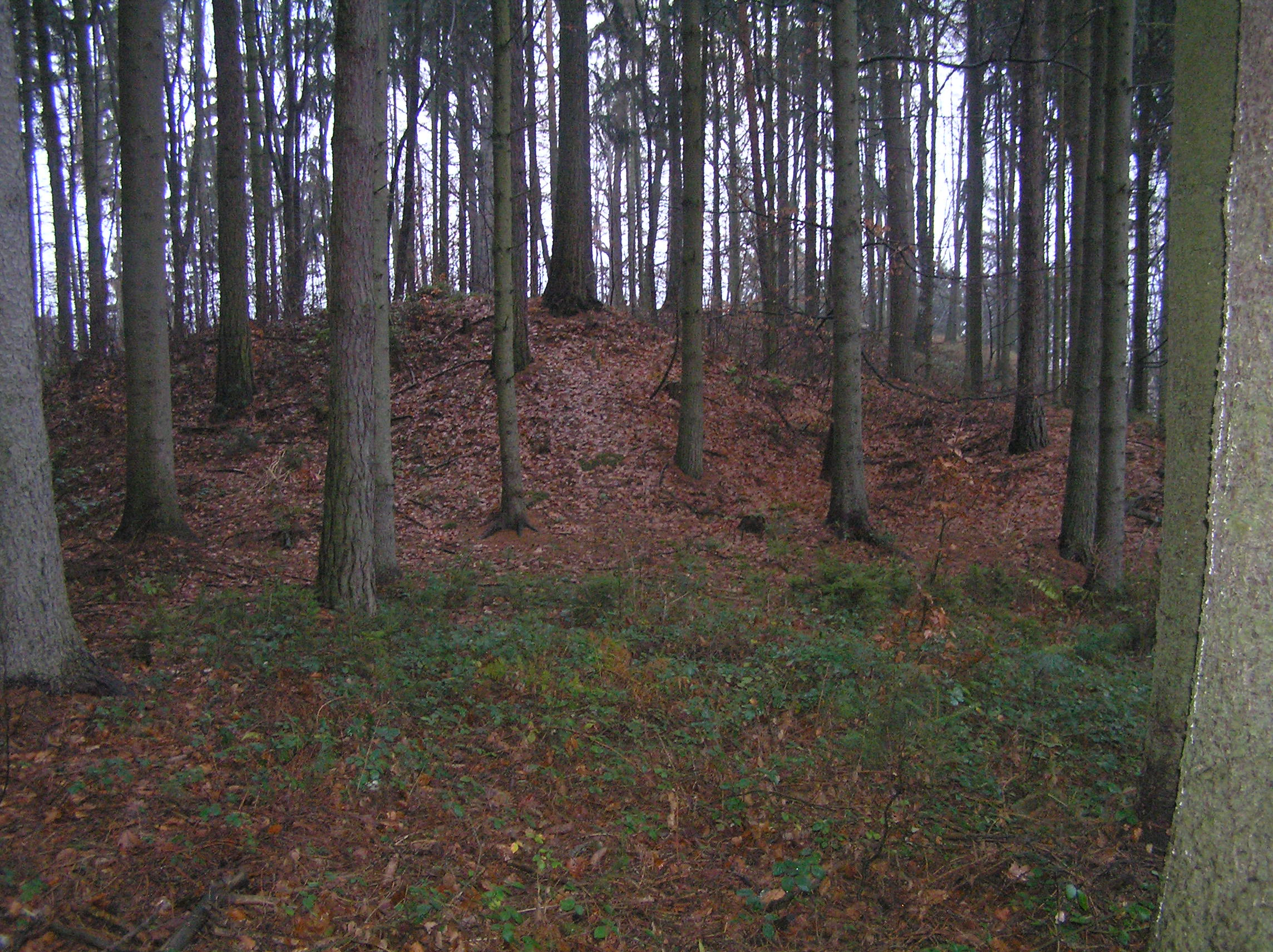 Hlavacov is the ruin of the castle near the town Choceň in the Czech Republic